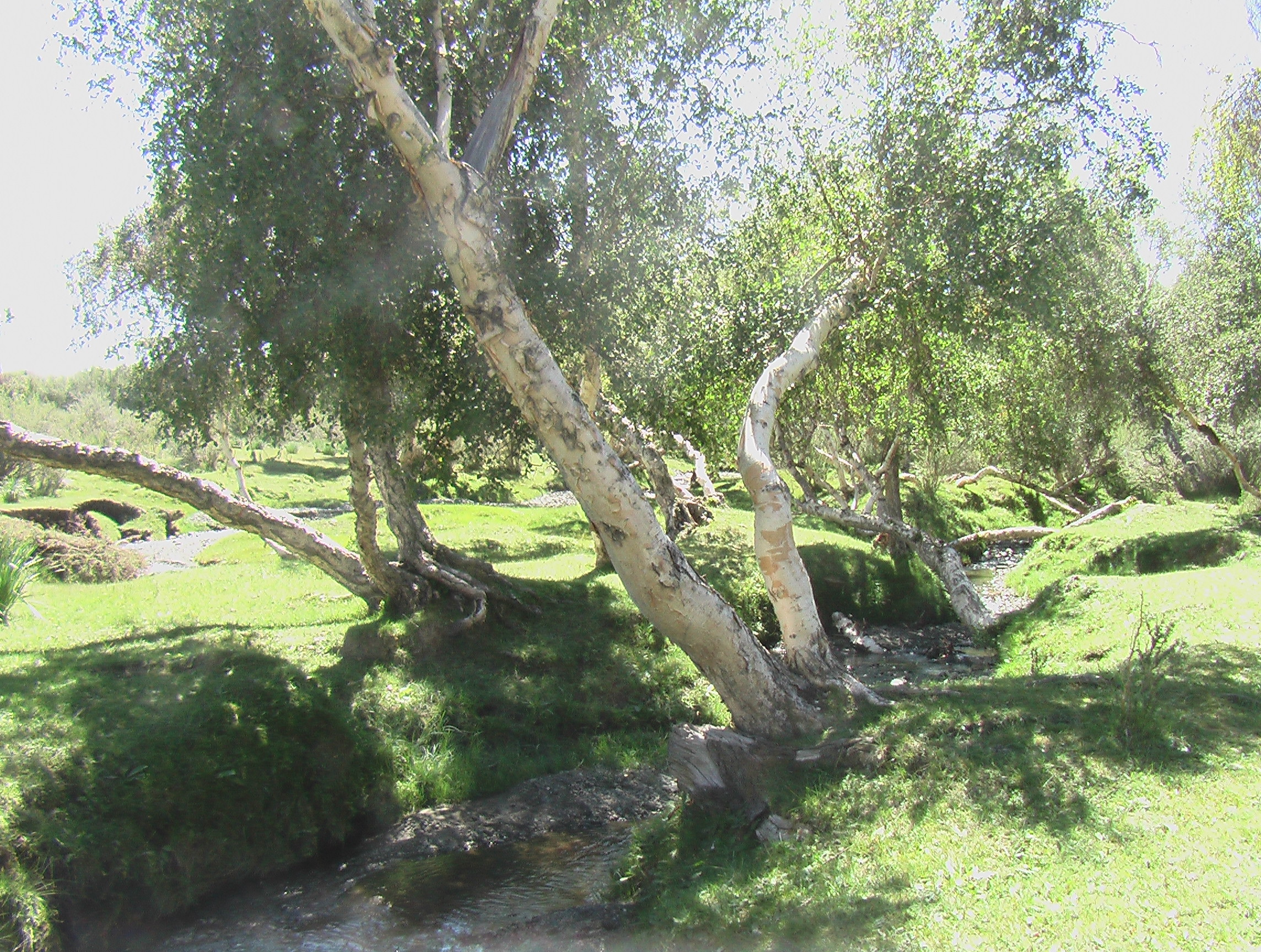 Betula microphylla Bunge (syn. B. rezniczenkoana (Litv.) Schischk.) in Chandmani sum, Khovd aimag, West Mongolia